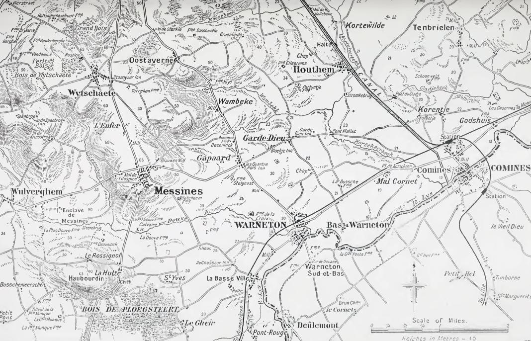 Map Ypres area south, 1914-1915